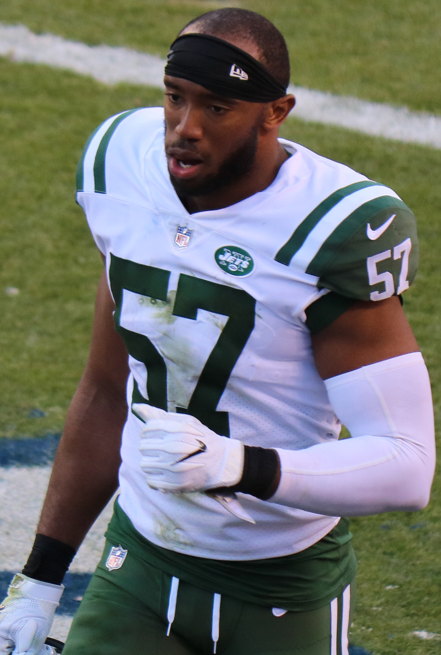 Obum Gwacham, a National Football League player.